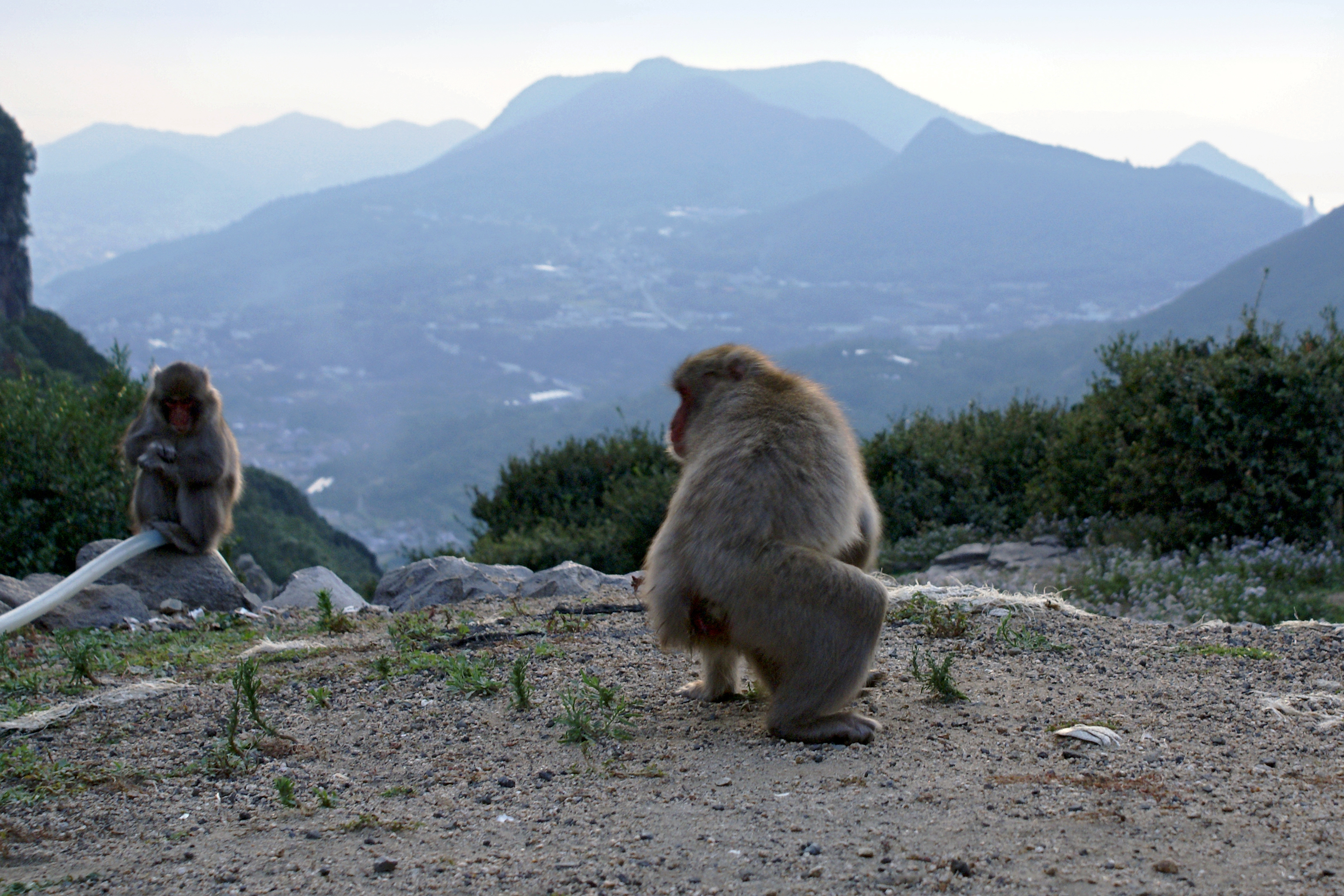 At Choshikei in Shodoshima Island Kagawa Prefecture, Japan)